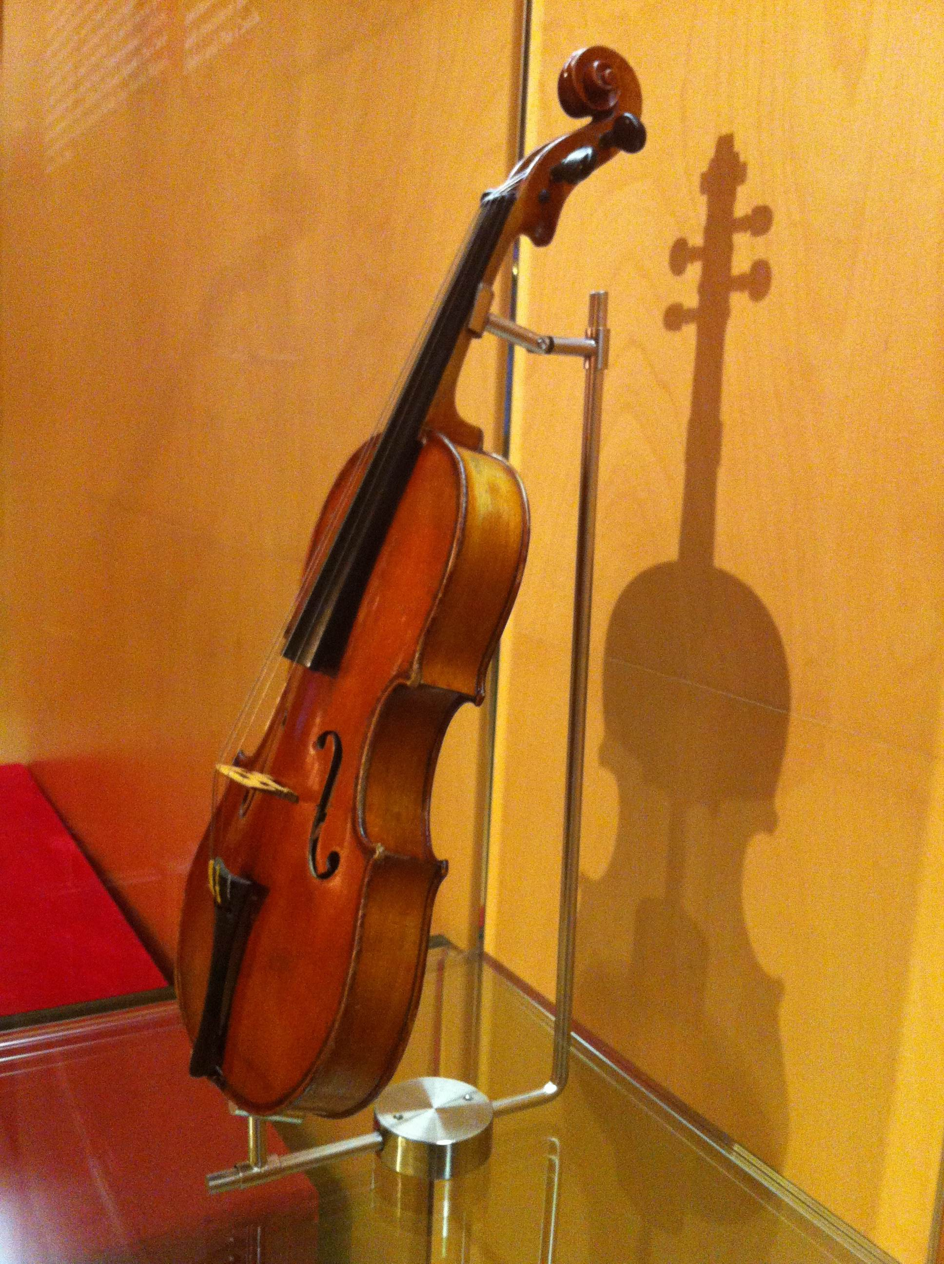 Toldr'a's violin, MDMB 11266, Museu de la Música de Barcelona